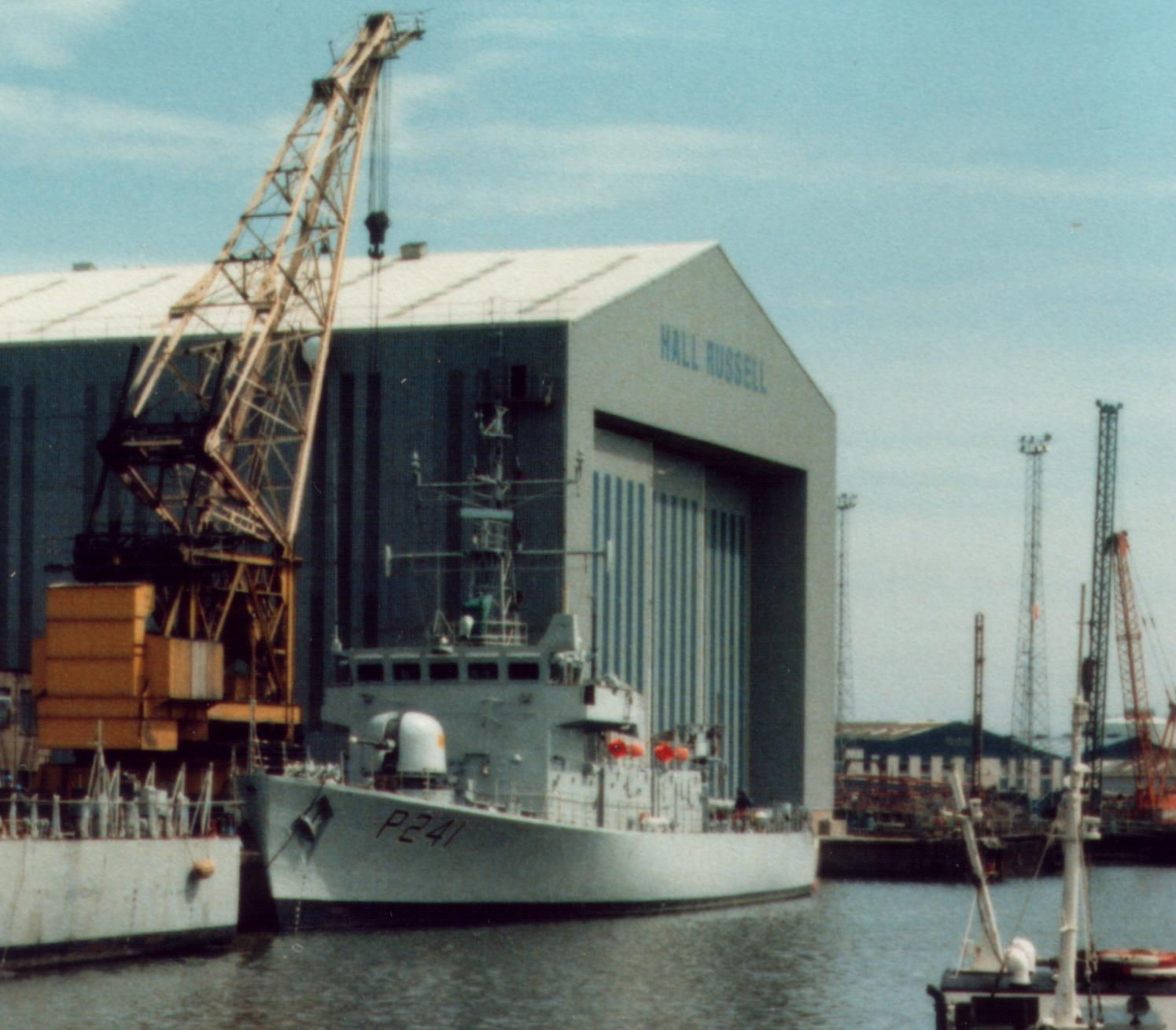 HMS Starling at Hall Russell, Aberdeen 30.5.84